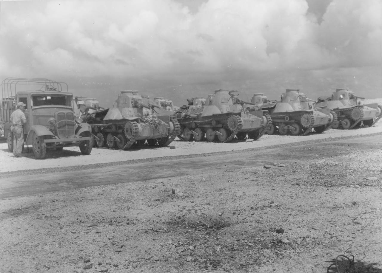 Japanese 16th Tank Regiment Type 95 Ha-Gos on Marcus Island.